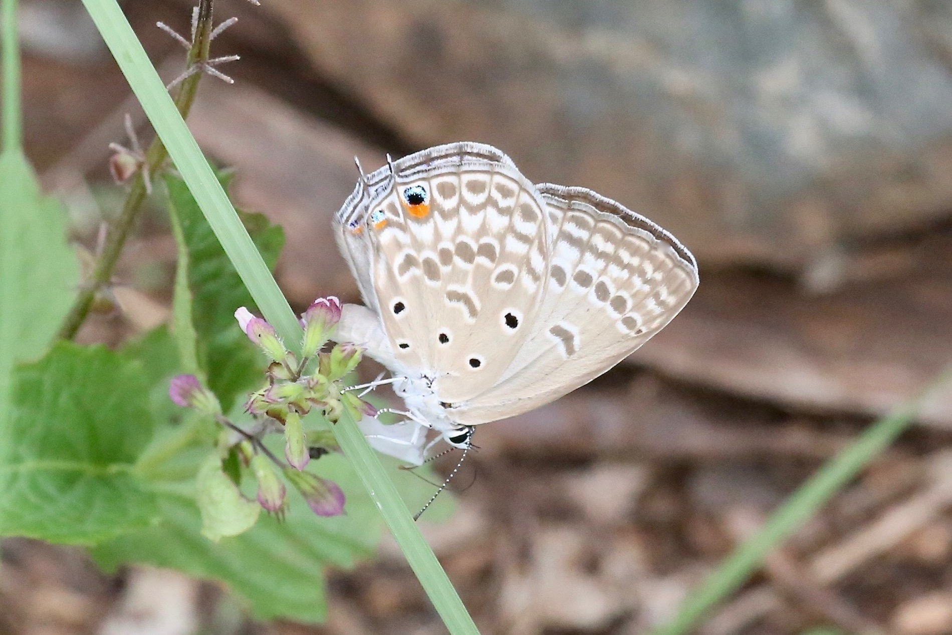 South Africa, Mpumalanga, Louw's Creek